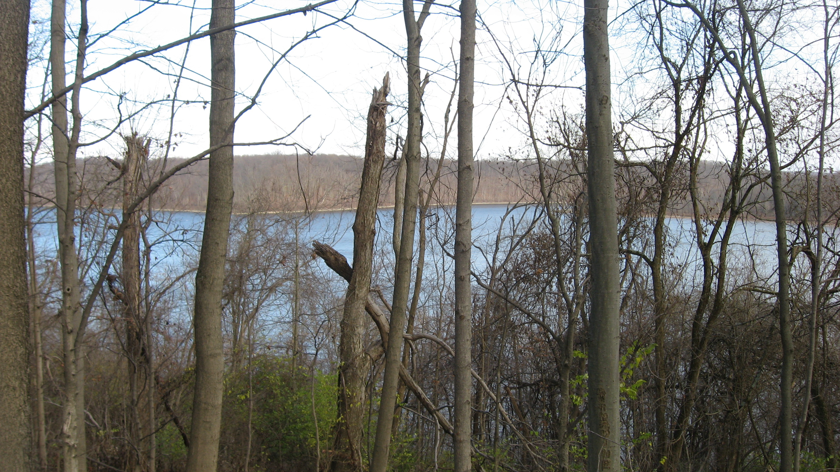 Overview of William H. Harsha Lake at East Fork State Park in Clermont County, Ohio, United States. Photo is taken from near the Elk Lick Road picnic site.